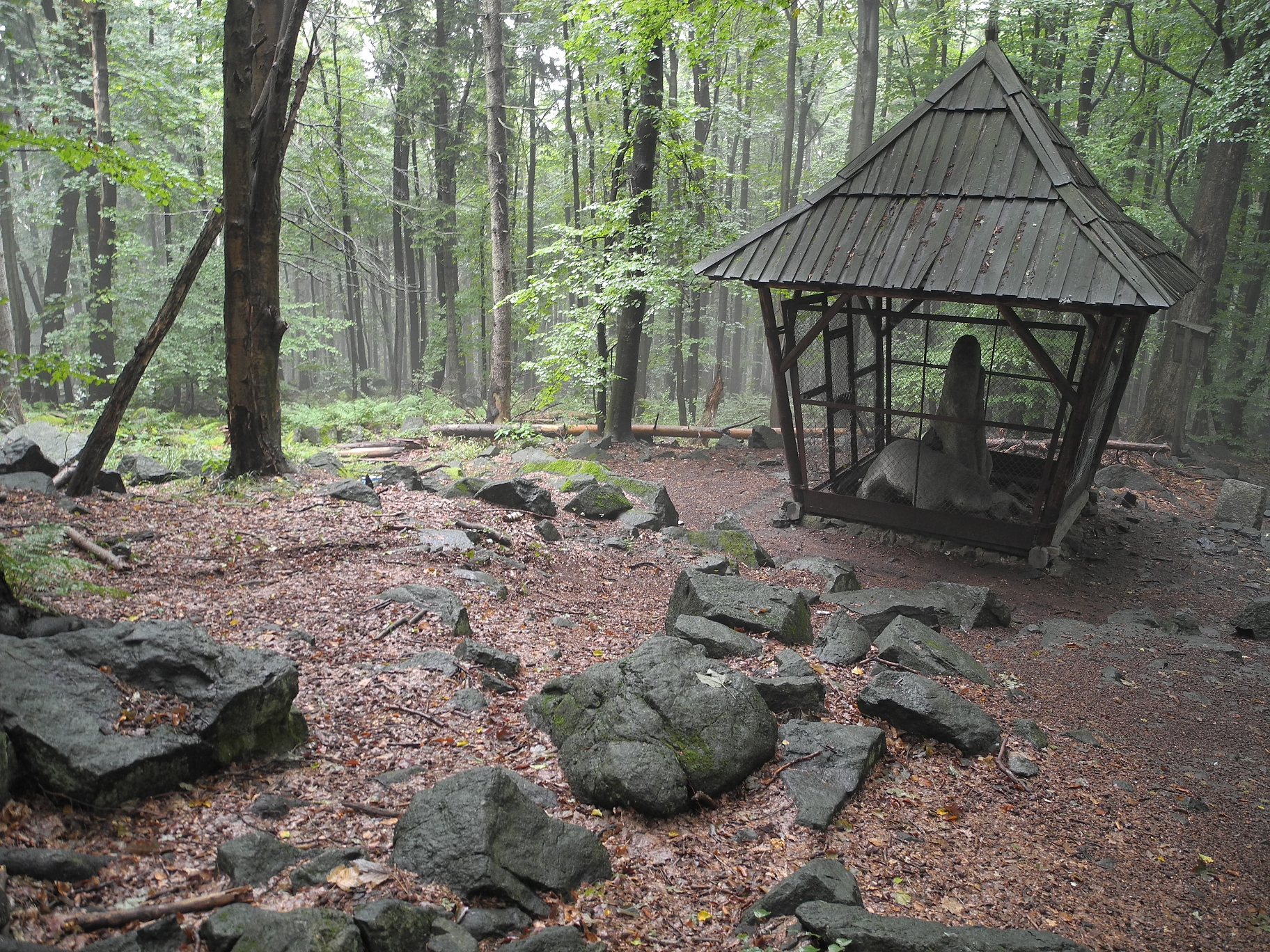 Masyw Ślęży